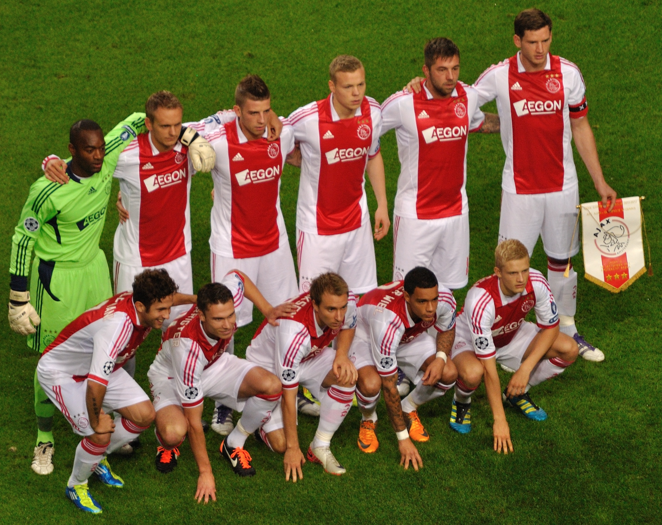 Starting eleven of Ajax against Olympique Lyon on September 14th, 2011. Line-up: Kenneth Vermeer, Siem de Jong, Toby Alderweireld, Kolbeinn Sigþórsson, Theo Janssen, Jan Vertonghen, Miralem Sulejmani, Derk Boerrigter, Christian Eriksen, Gregory van der Wiel, Nicolai Boilesen